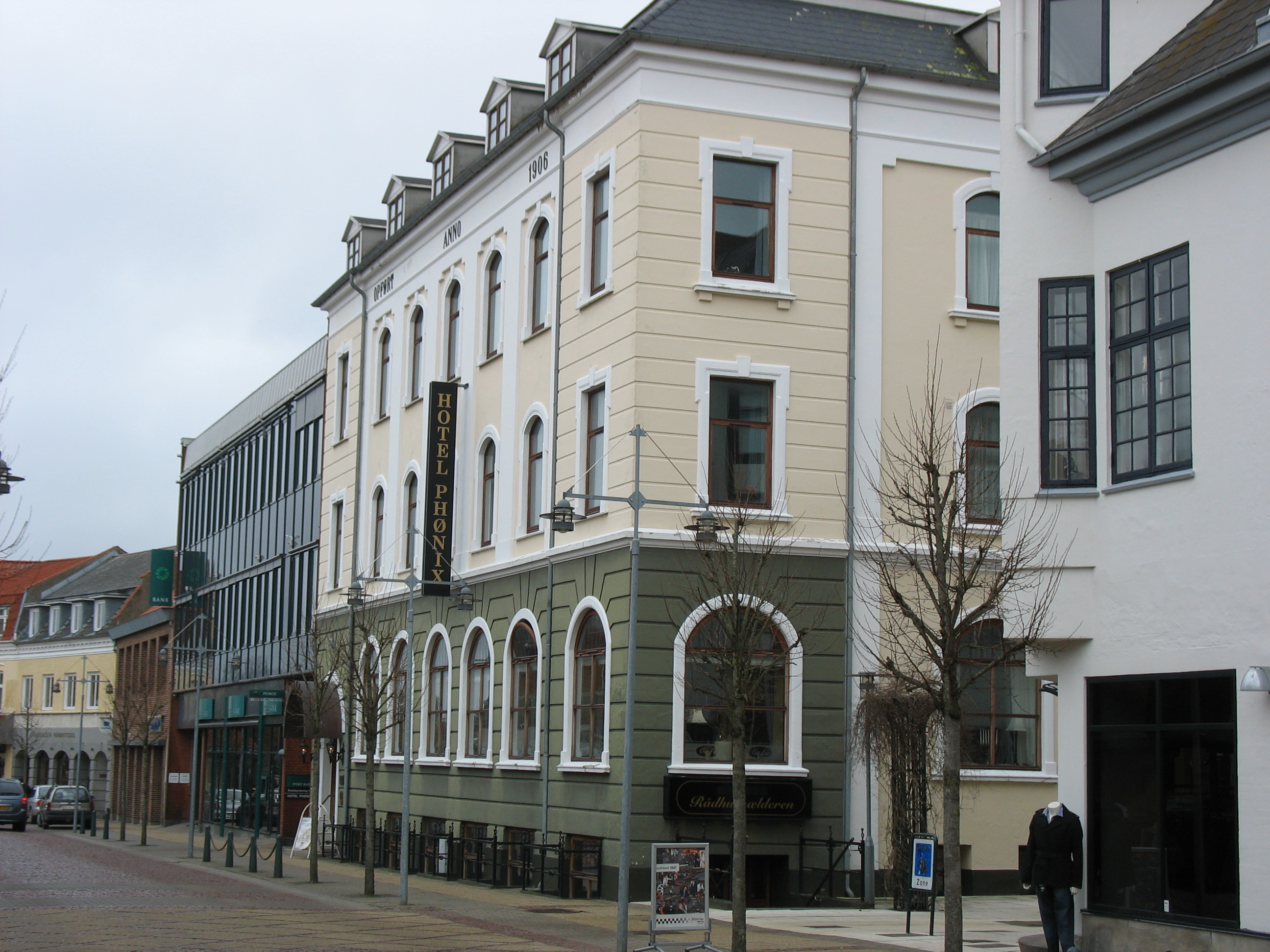 "Hotel Phønix" in the town "Brønderslev". The town is located in North Jutland, Denmark.